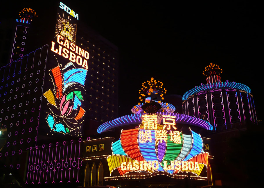 The Casino Lisboa of Macau as seen by night